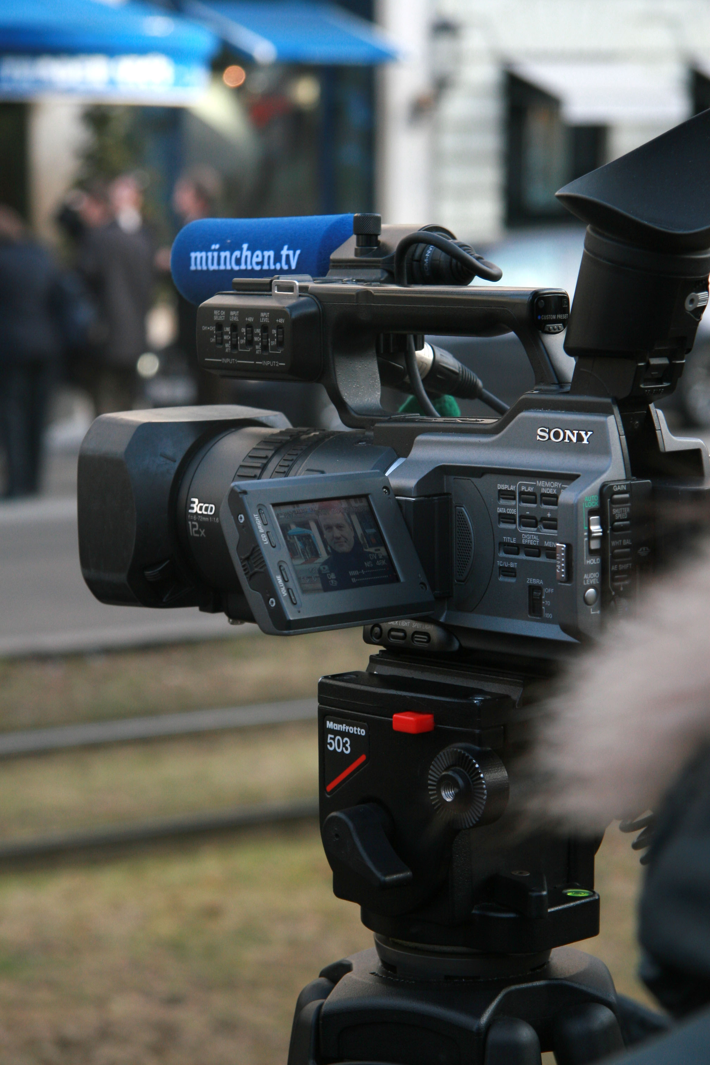 45th Munich Security Conference 2009: Impressions before Beginning of the Conference.